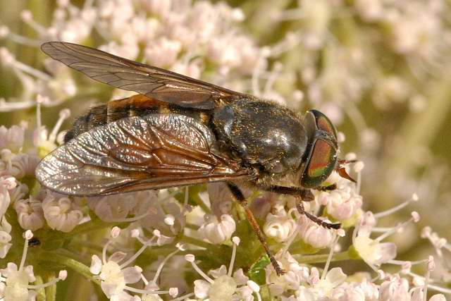 Tabanus bromius from Commanster, Belgian High Ardennes .